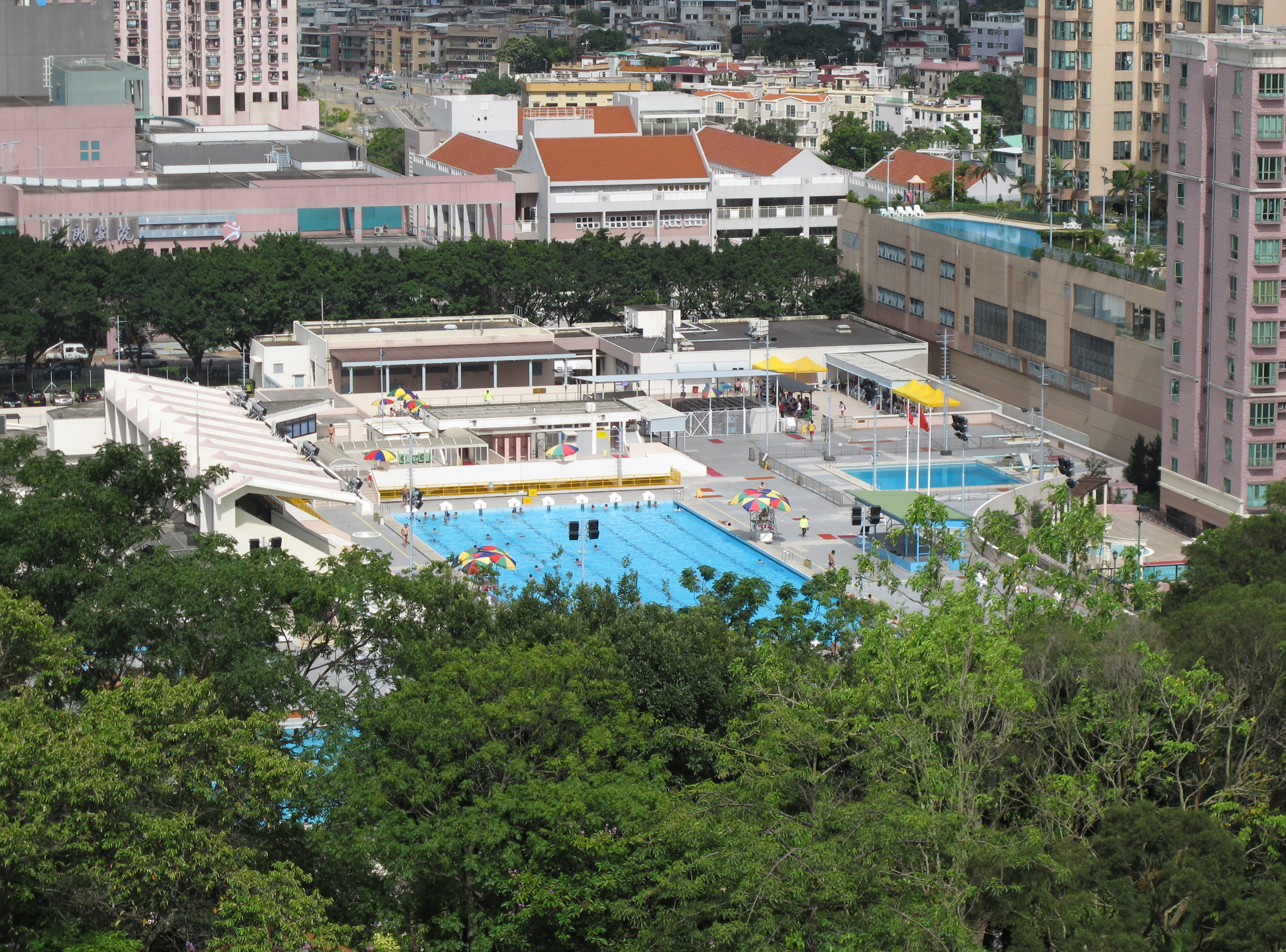 Yuen Long Public Swimming Pool